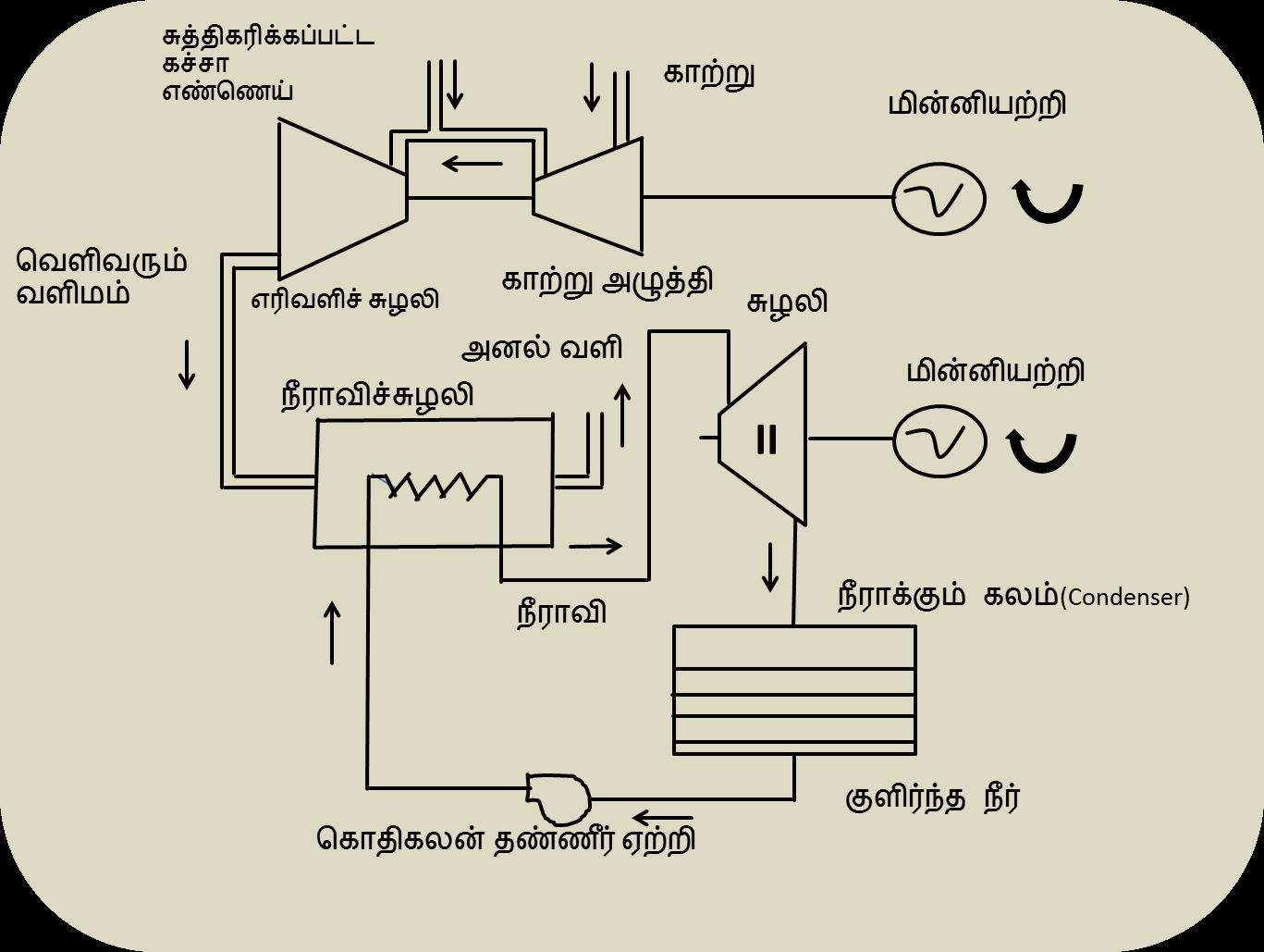 இணைப்பு சுழல் மின் உற்பத்தி நிலையம்